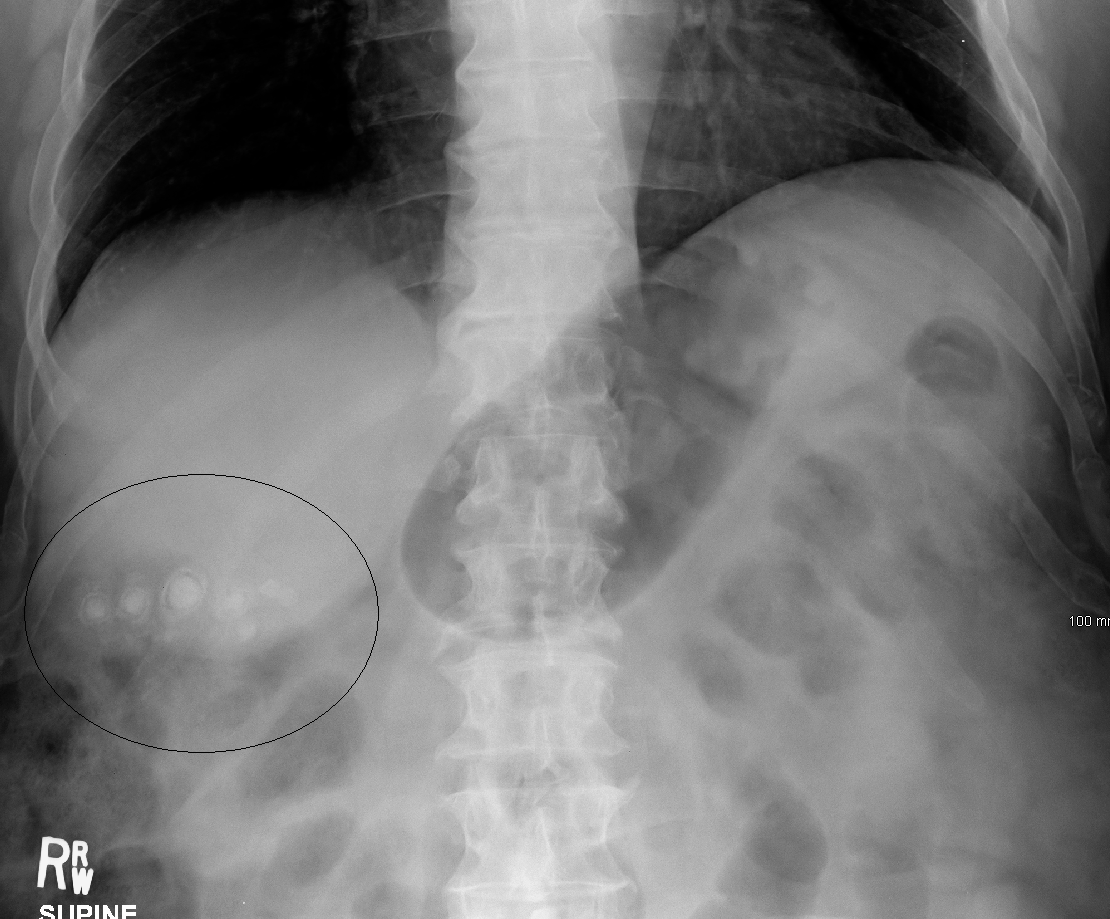 Gallstones as seen on plain Xray.